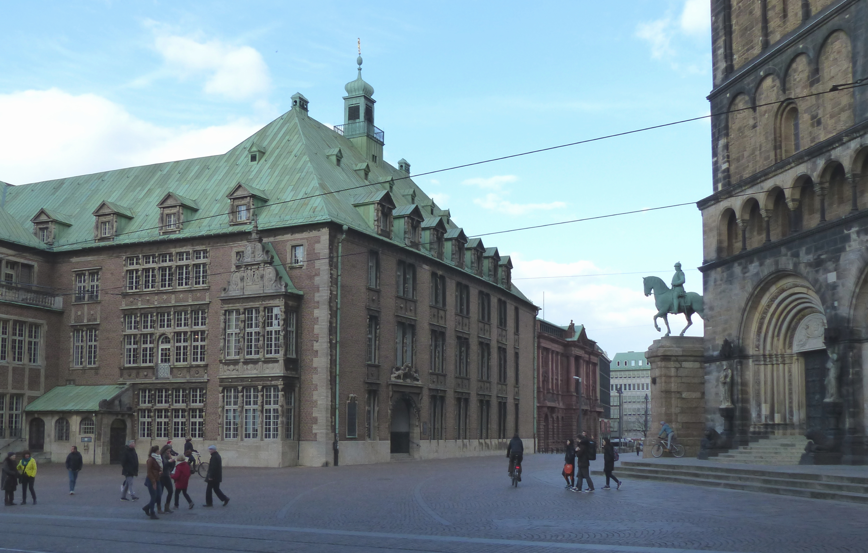 Neues Rathaus (early 20th century enlargement of the town hall) in Bremen on 2017-03-05